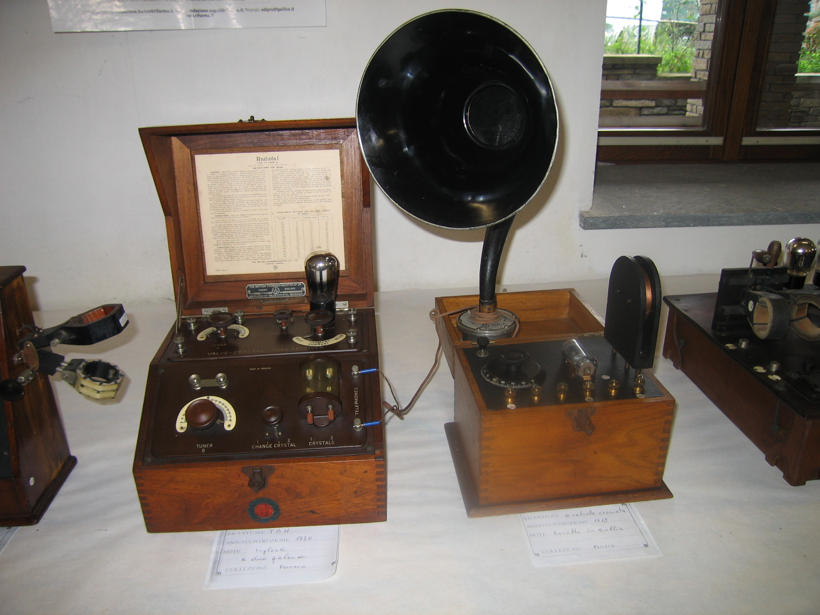 on the right: model: BTH (British Thomson-Houston) year: 1920 note: made in United Kingdom on the left